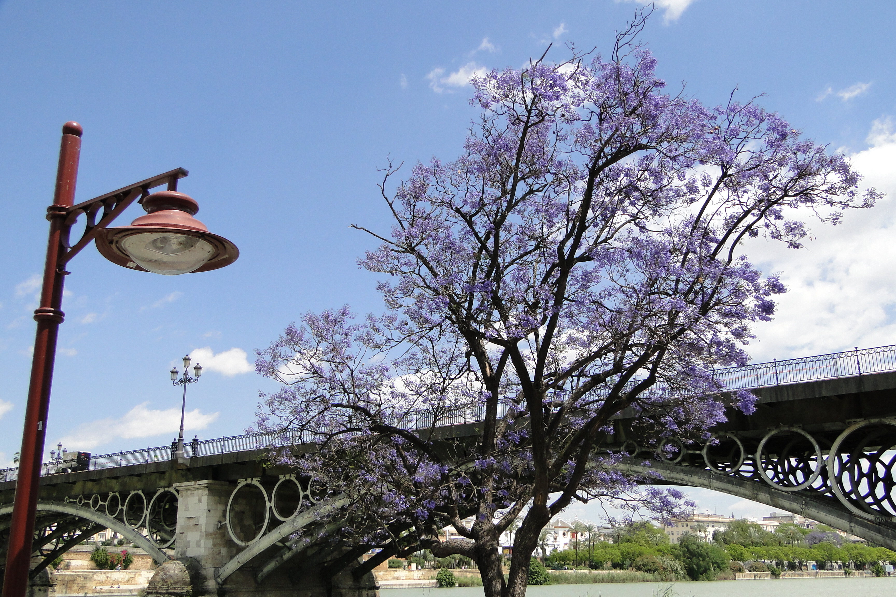 Bridge with Jacaranda Tree in Bloom - Seville - Spain